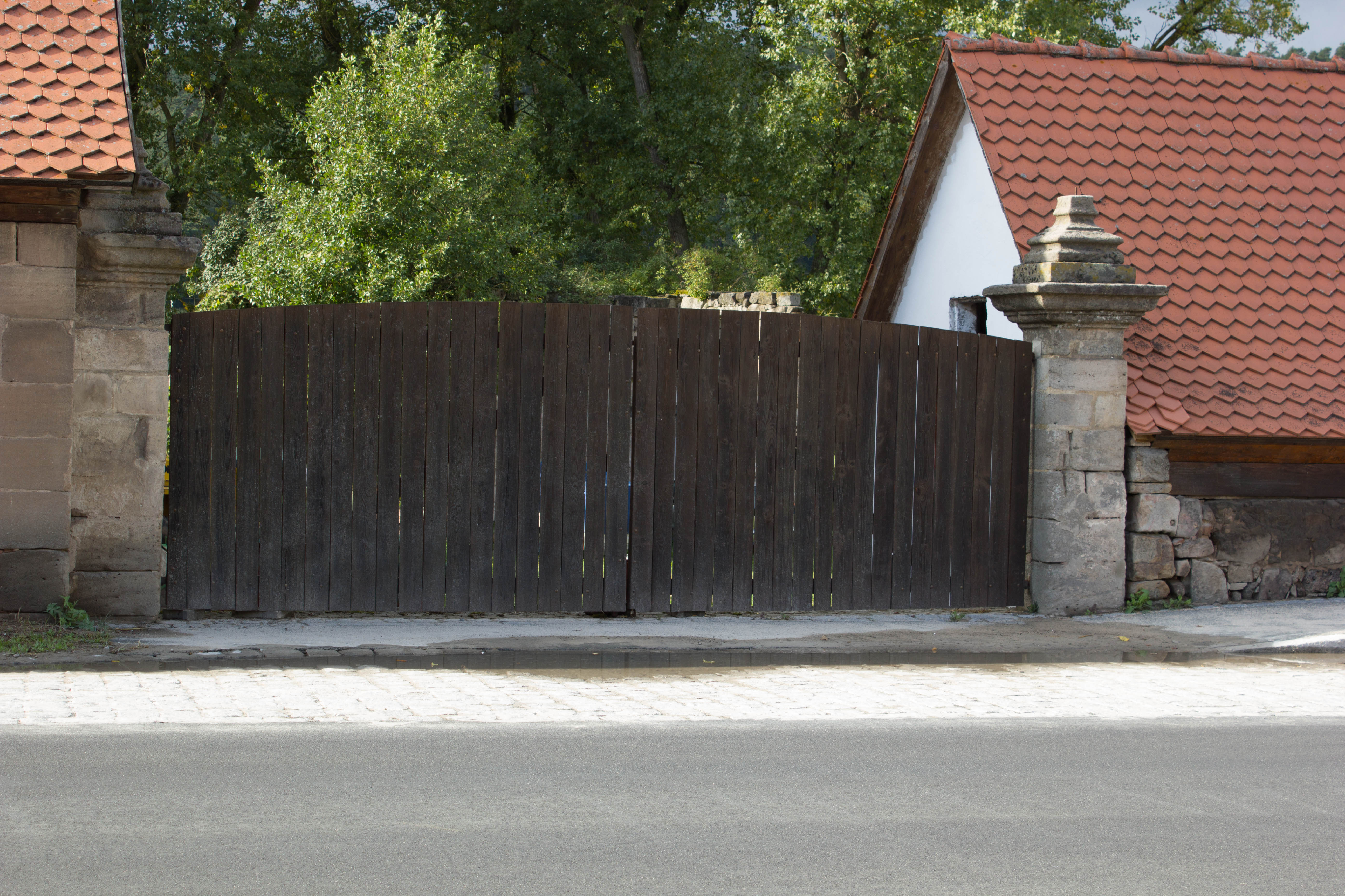 Langenzenn Heinersdorf, Äußere Windsheimer Strasse 50